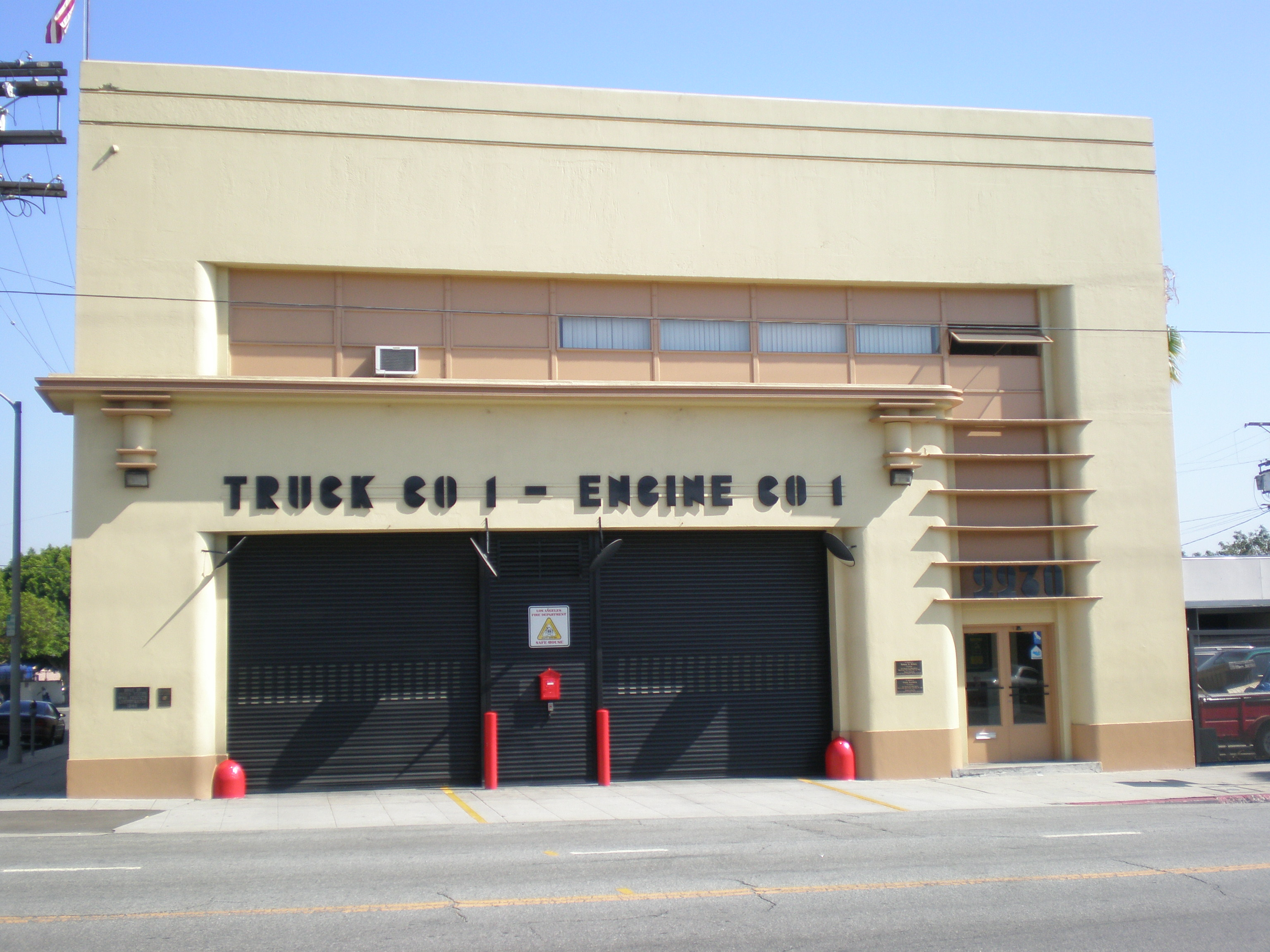 LAFD Fire Station # 1 — in the historic Lincoln Heights neighborhood of central Los Angeles, California. • It is a designated Los Angeles Historic-Cultural Monument.